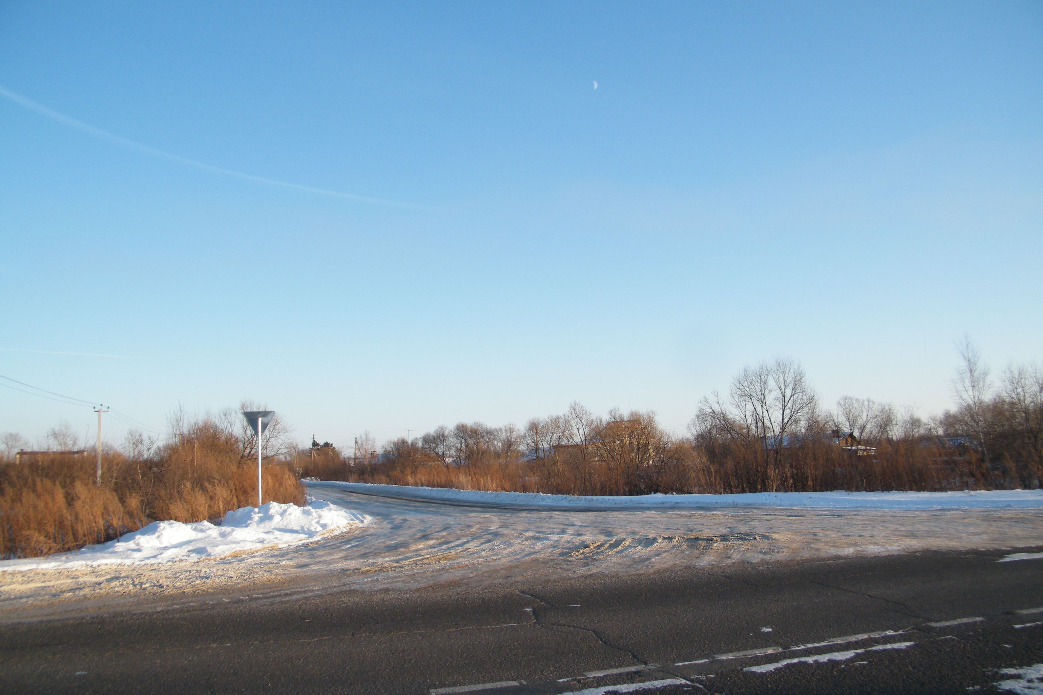 Khabarovsk Krai